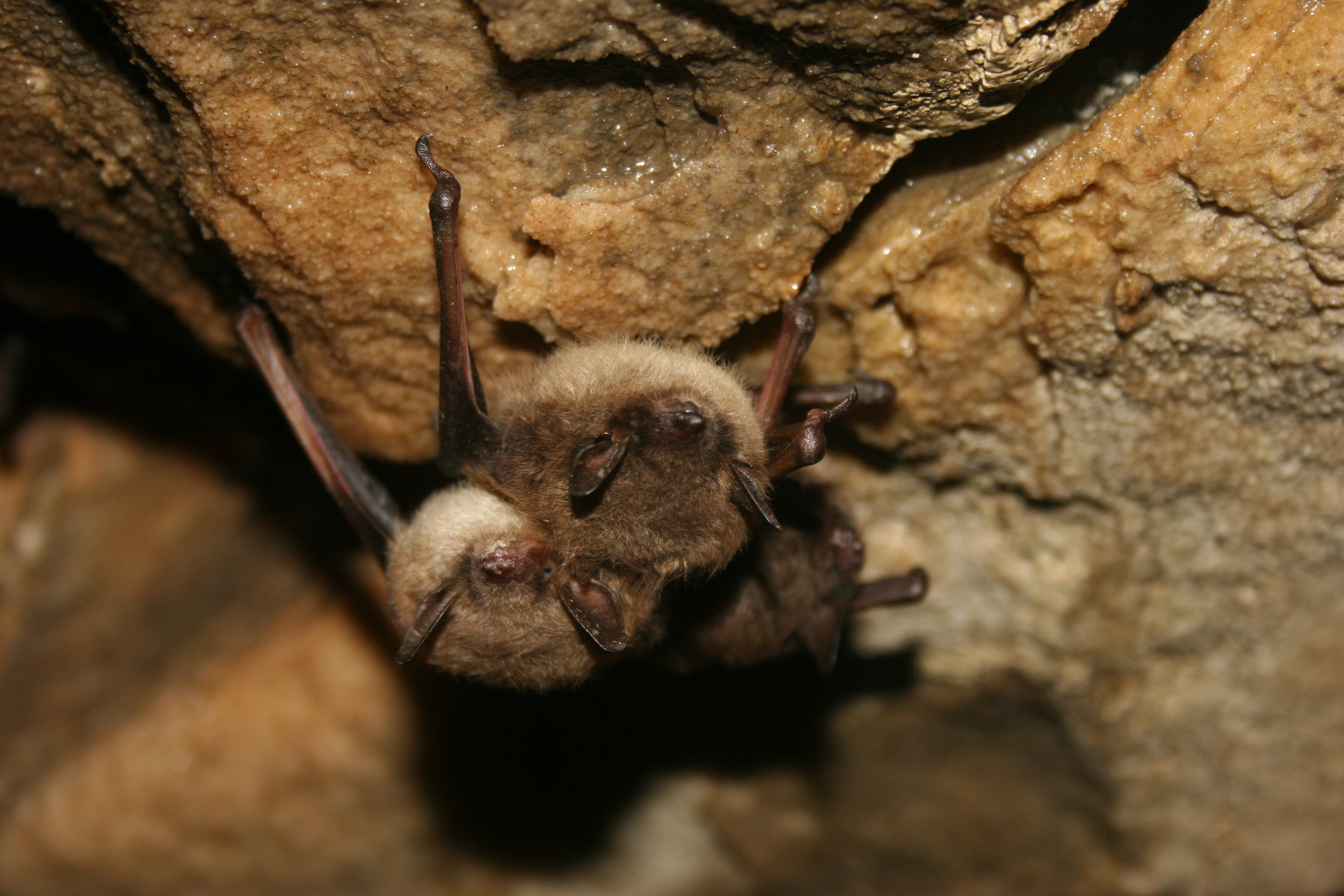 Healthy little brown bats in Mt. Aeolus Cave photo credit: Ann Froschauer/USFWS